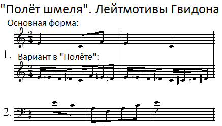 Musical notation to illustrate two leitmotifs of Prince Gvidon that appear in "Flight of the Bumblebee" from the opera The Tale of Tsar Saltan Notation prepared on computer by Mllefifi; screen capture in JPEG format. The composition itself is in the public domain; the musical excerpts are only minimally extracted and analyzed.